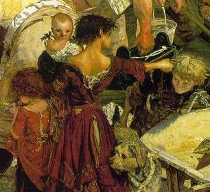 Detail of Work by Ford Madox Brown